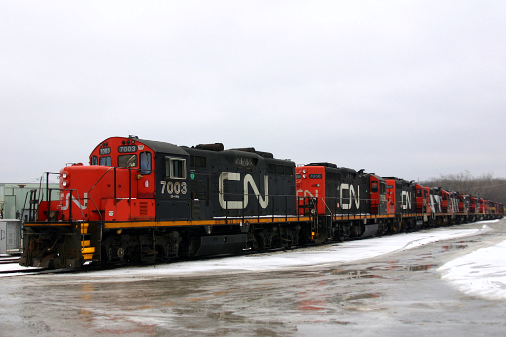 one long deadline of canadian geeps Canadian National Railway 7003, EMD GP9rm